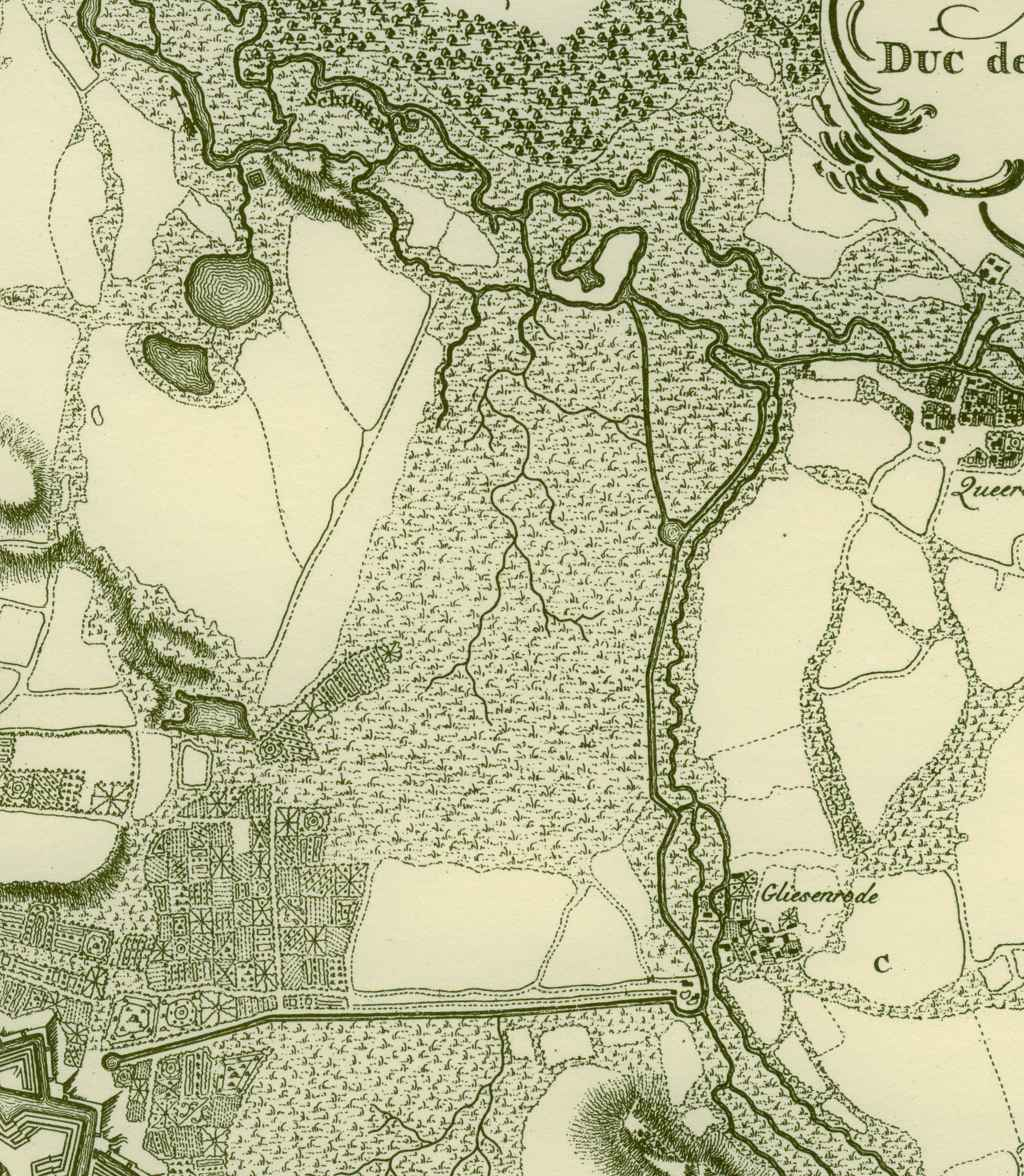 Schuntercanal in the northeast of Braunschweig, map from 1761